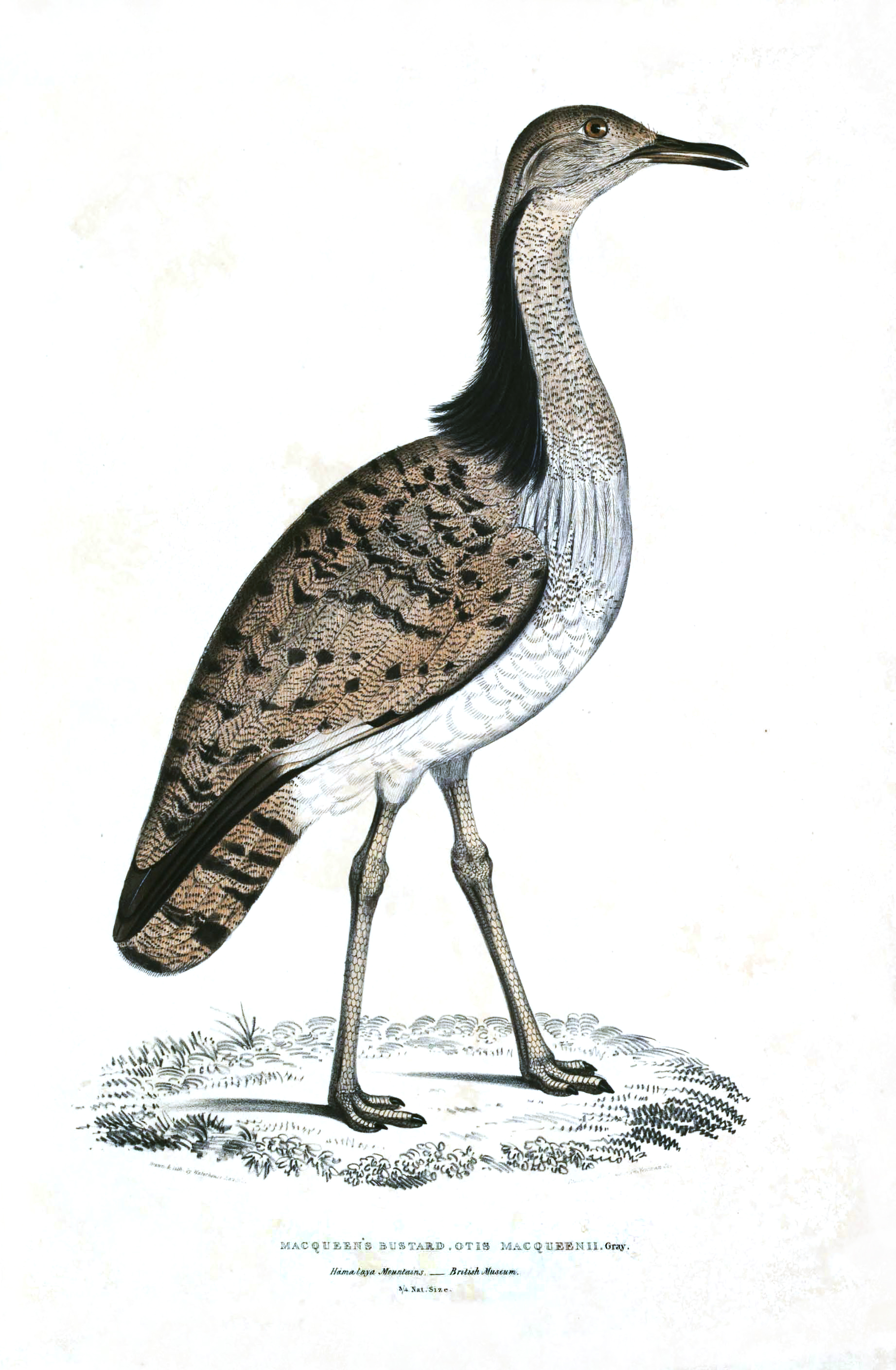 Cleaned up plate 57 from Illustrations of Indian Zoology. Volume 2 showing Chlamydotis macqueenii